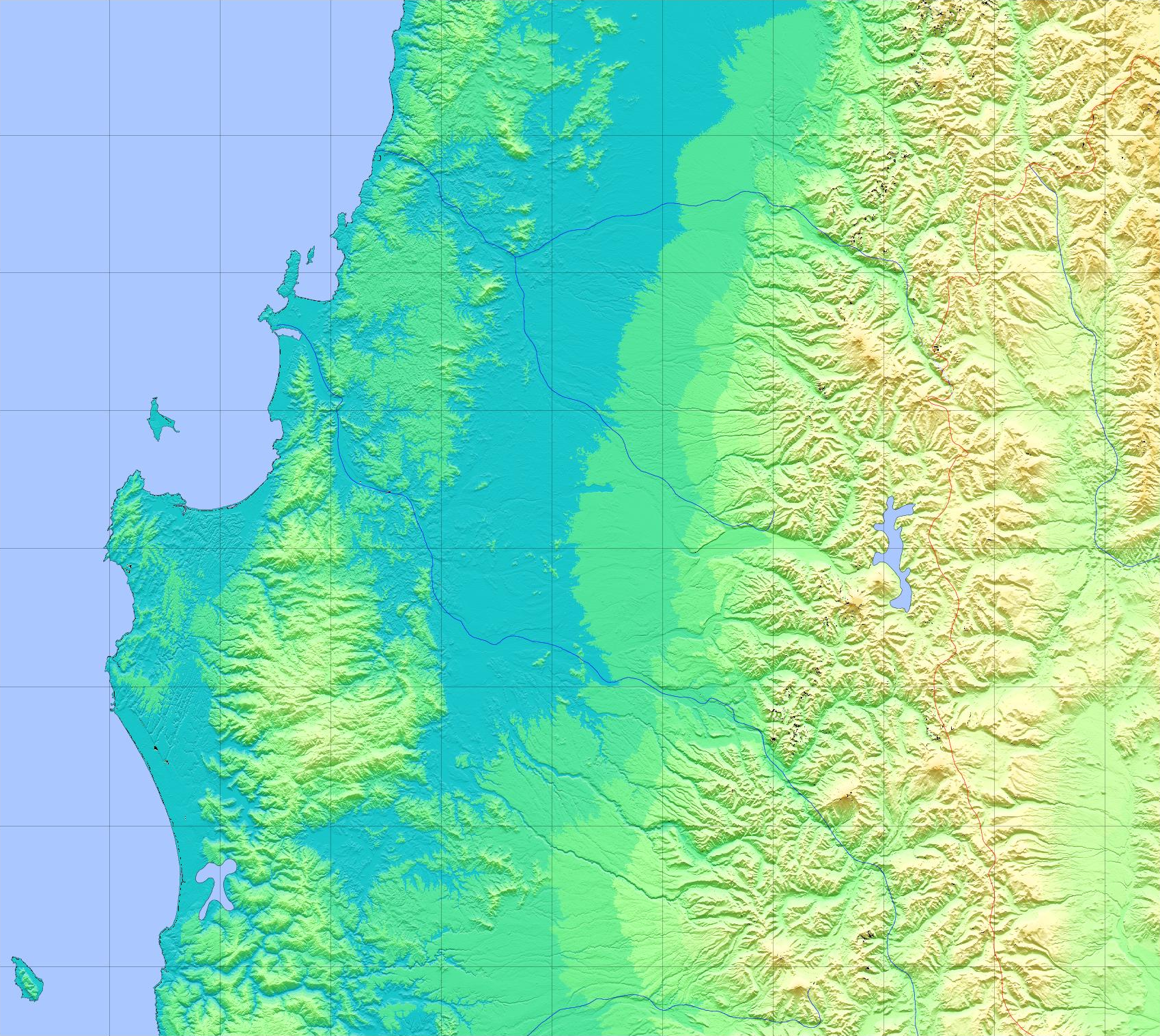 Biobío Region, Chile